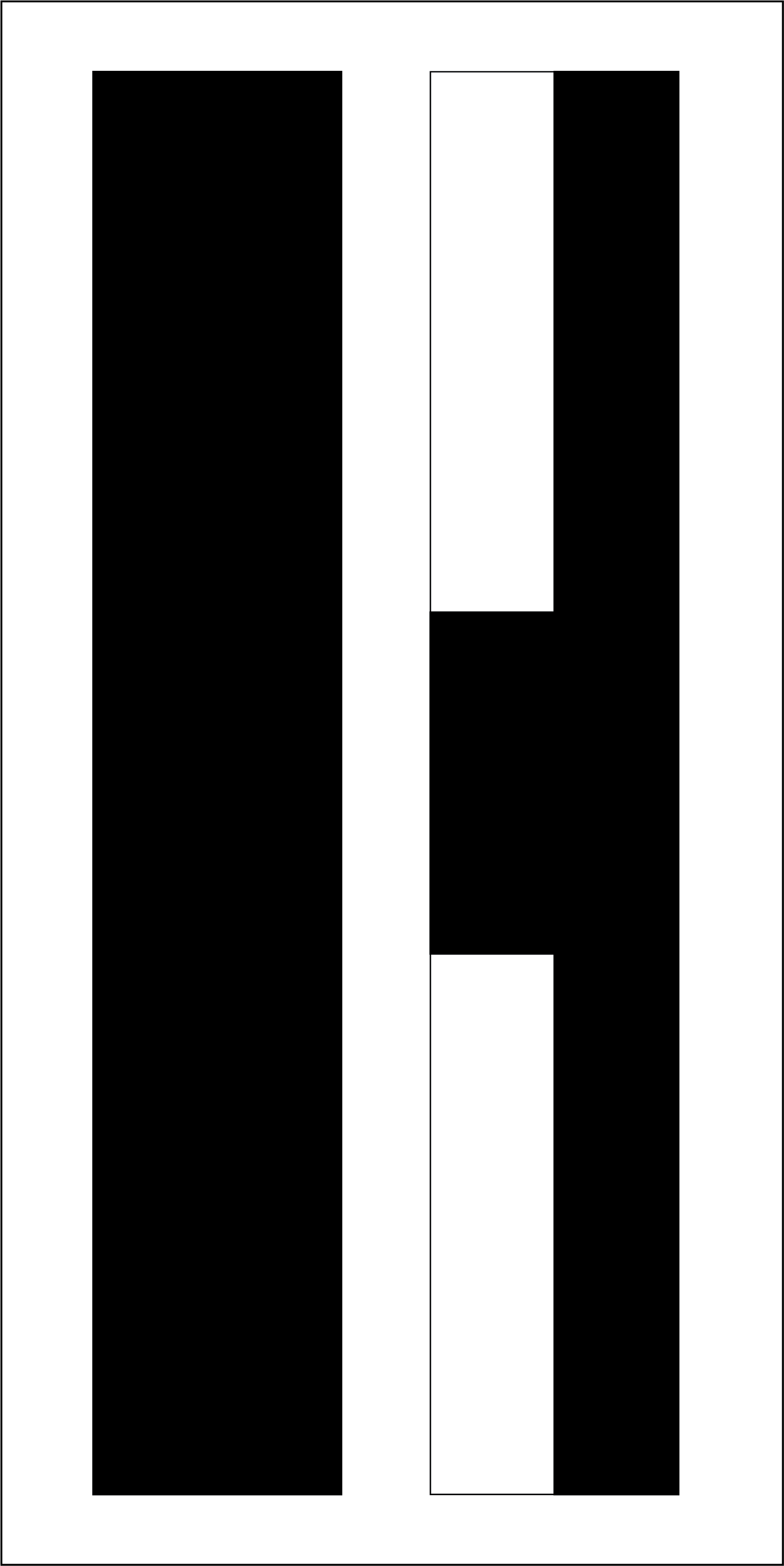 Based on David Nicolle "Armies of the Muslim Conquest" illustrations by Angus McBride. And Martin Hinds "The Banners and Battle Cries of the Arabs at Siffin" Al-Abhath XXIV